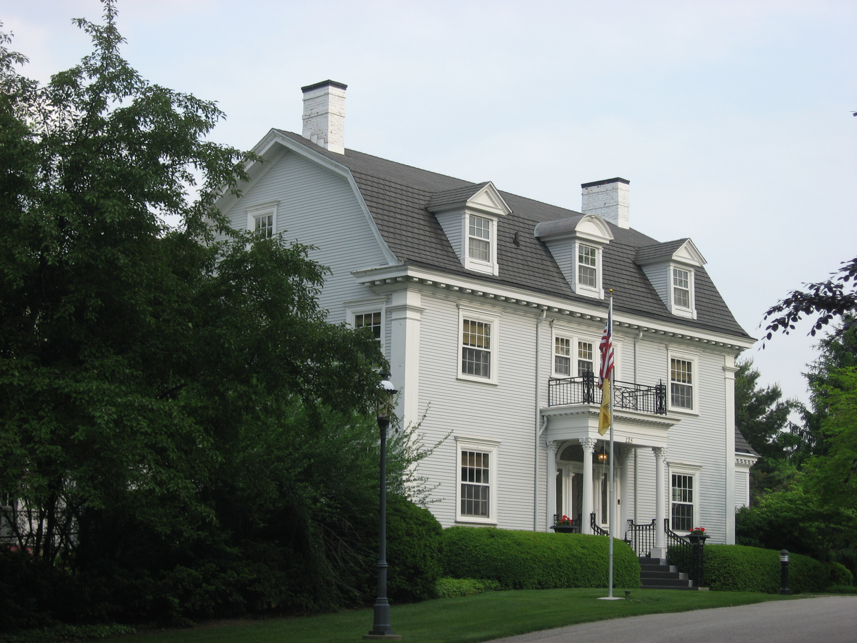 Front of the William C. Van Arsdel House, located at 125 N. Wood Street in Greencastle, Indiana, United States. Built in 1917, it is listed on the National Register of Historic Places, and it is part of the Eastern Enlargement Historic District, a Register-listed historic district.